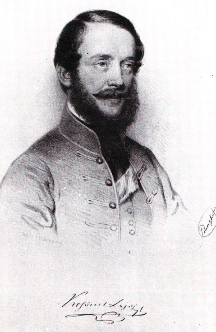 Lihography by August Prinzhofer (1848) Lajos Kossuth is politician, lawyer and journalist